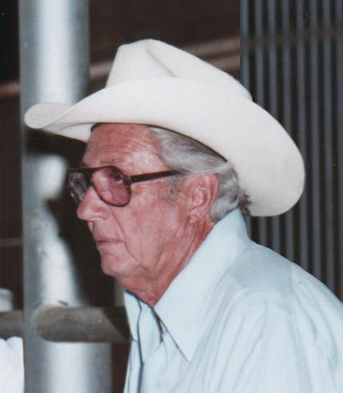 Louise Pearce Jr (1982) at Circle W Ranch Production Sale, Ft. Worth, TX